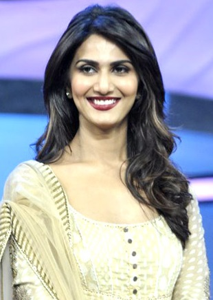 Vaani Kapoor promoting 'Shuddh Desi Romance' on DID Super Moms